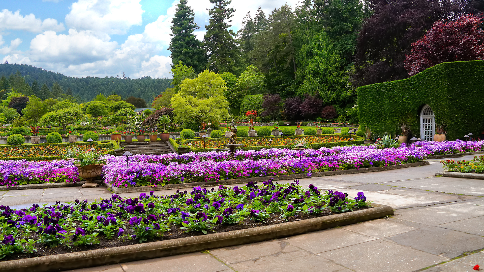 View of the Italian gardens at Butchart Gardens, Brentwood Bay, BC.